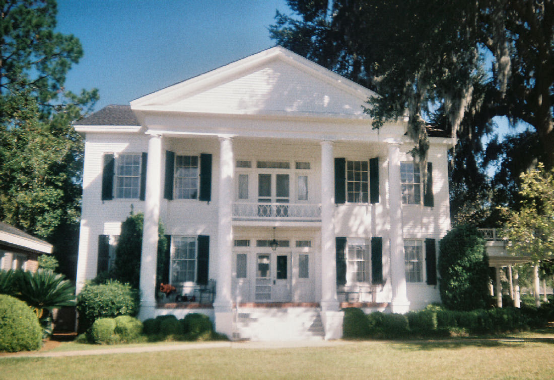 Judge P. W. White House, in Quincy, Florida